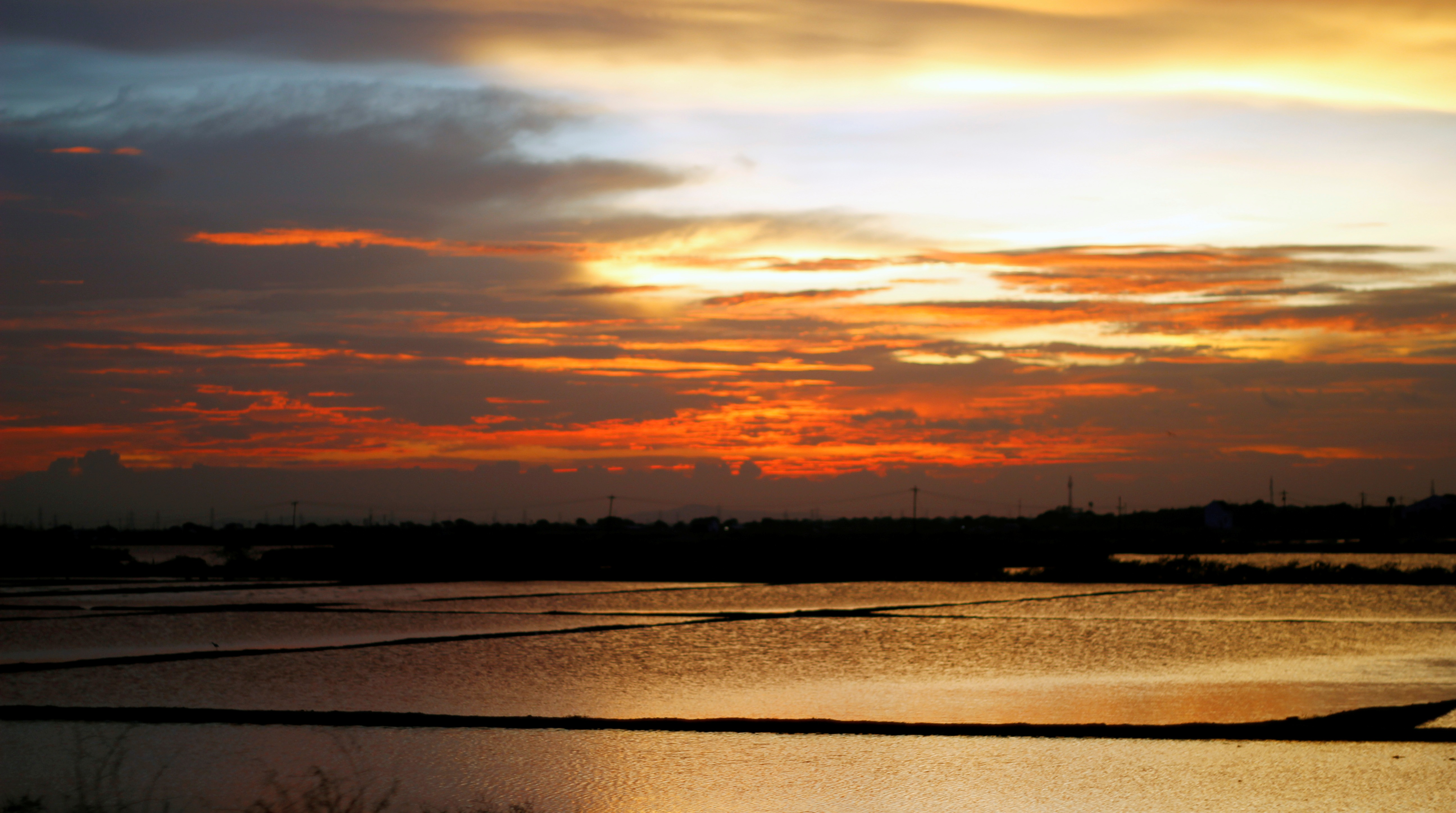 Thoothukudi (Tamil: தூத்துக்குடி), also known as Tuticorin, is a port city and a Municipal Corporation in Thoothukudi district of the Indian state of Tamil Nadu. Thoothukudi is the headquarters of Thoothukudi District. The economy of Thoothukudi revolves around shipping, fishing, salt pan, and agricultural industries. Thoothukudi has a host of other industries including power, chemicals and IT.